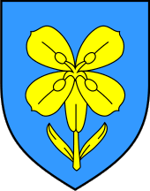 Official coat of arms of the Lika-Senj county in Croatia, made from gif version at by Željko Heimer